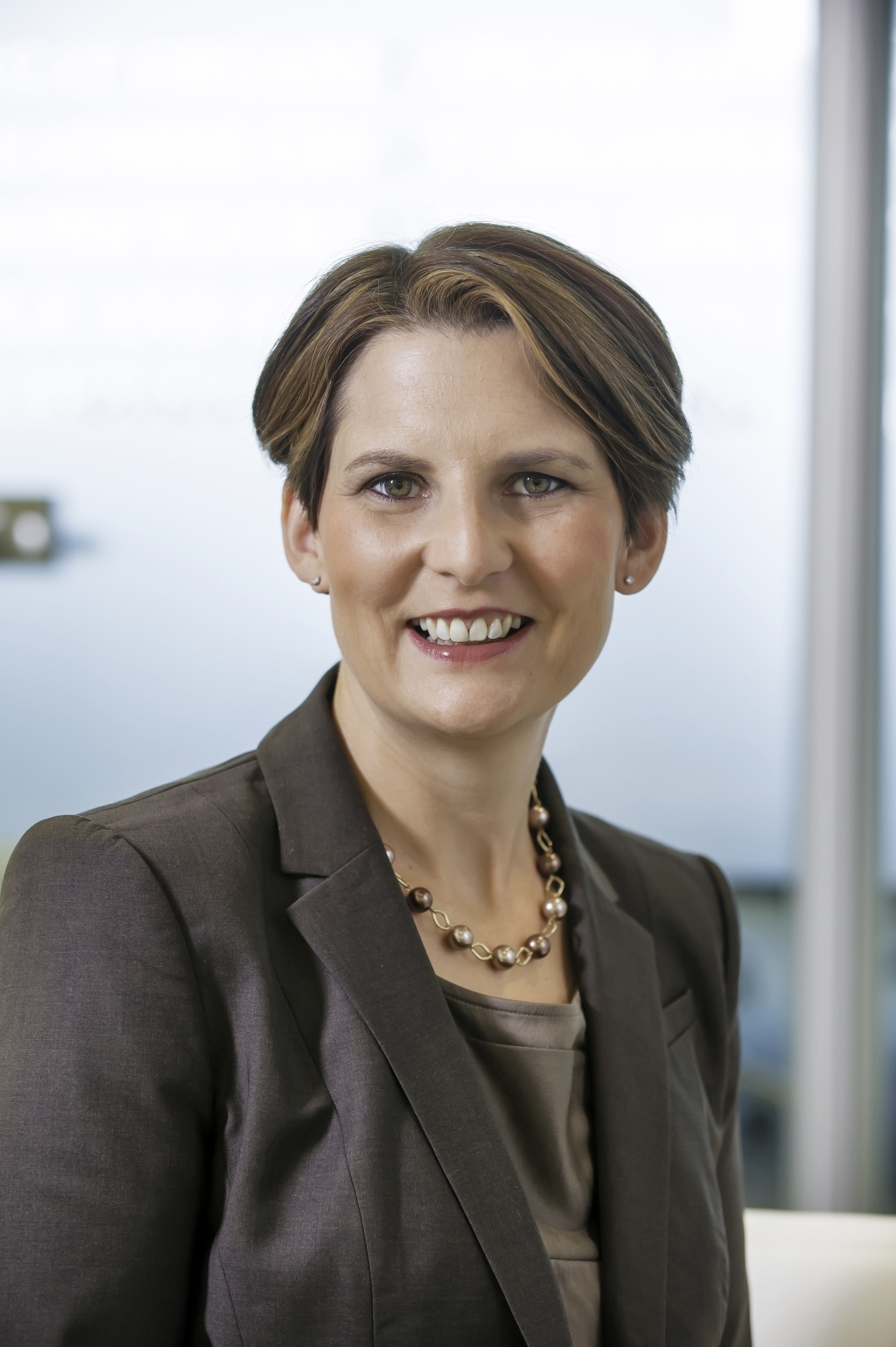 Best Selling Author, Business Leader